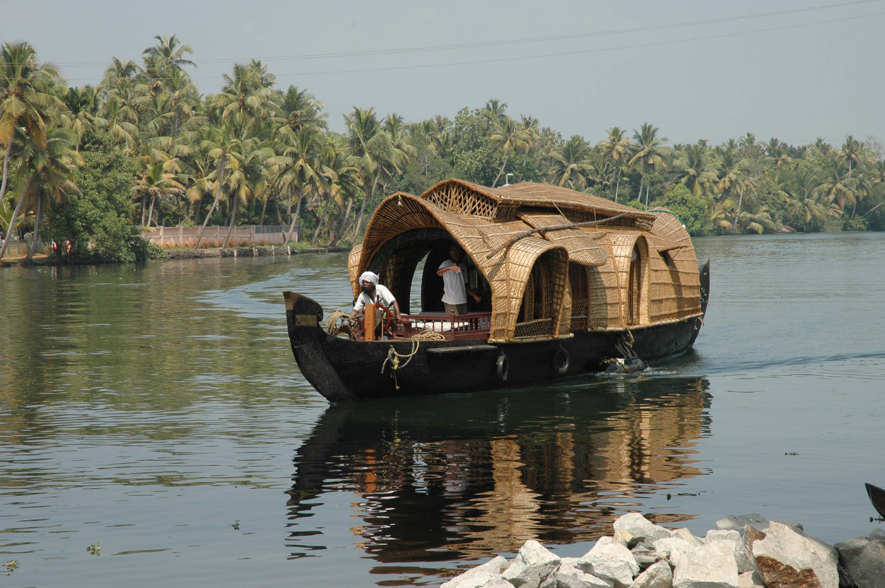 Houseboat near Alleppey, Kerala, India